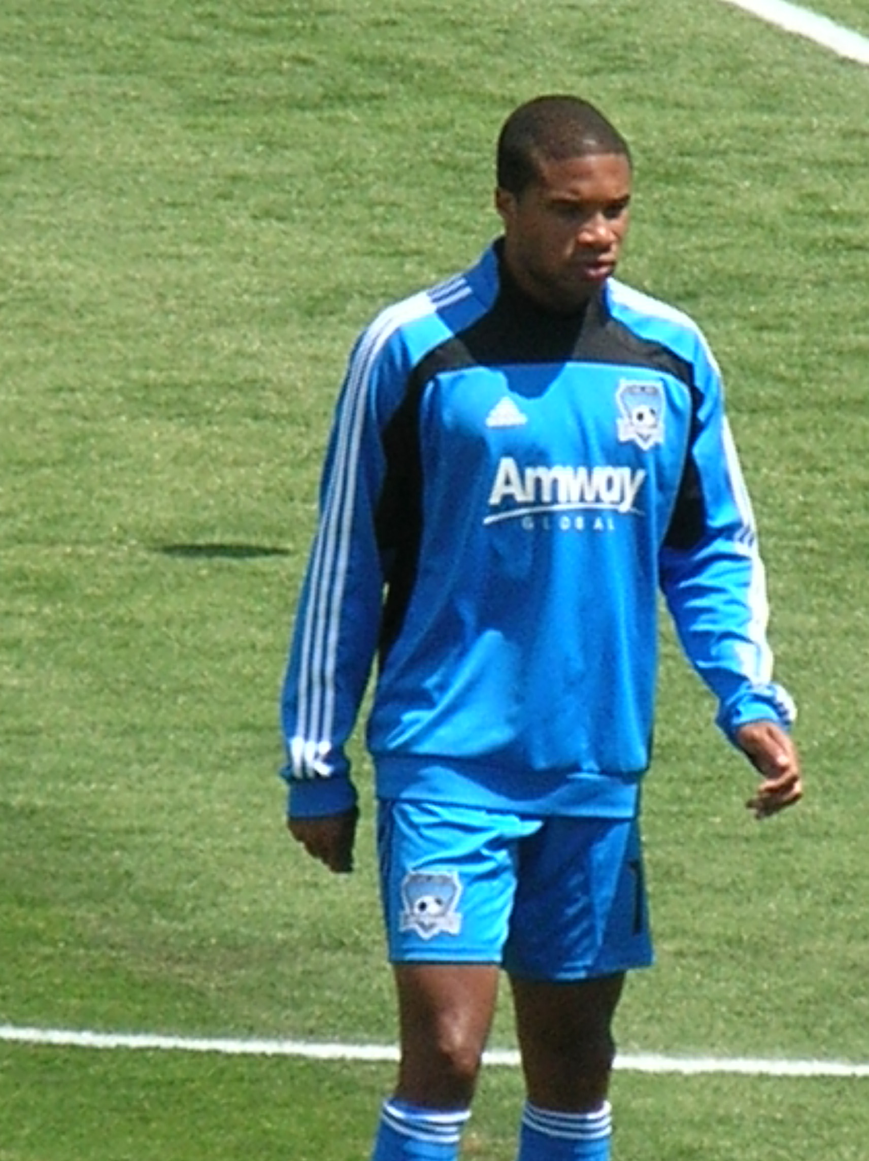 San Jose Earthquakes player Ryan Johnson warming up before a home game against the LA Galaxy. The Earthquakes won 1-0.